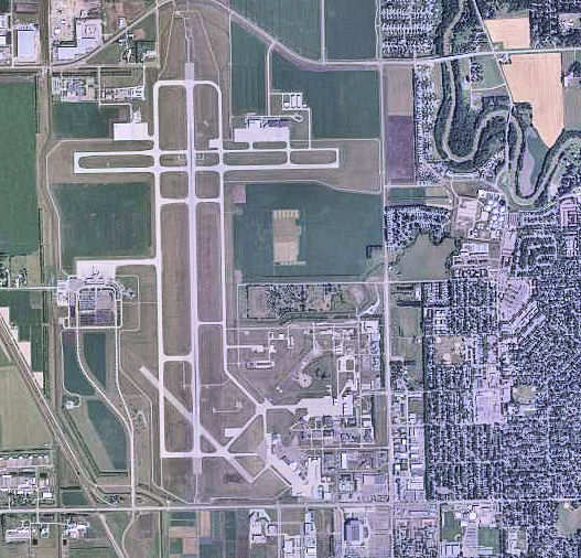 USGS digital orthophoto of Hector International Airport in North Dakota